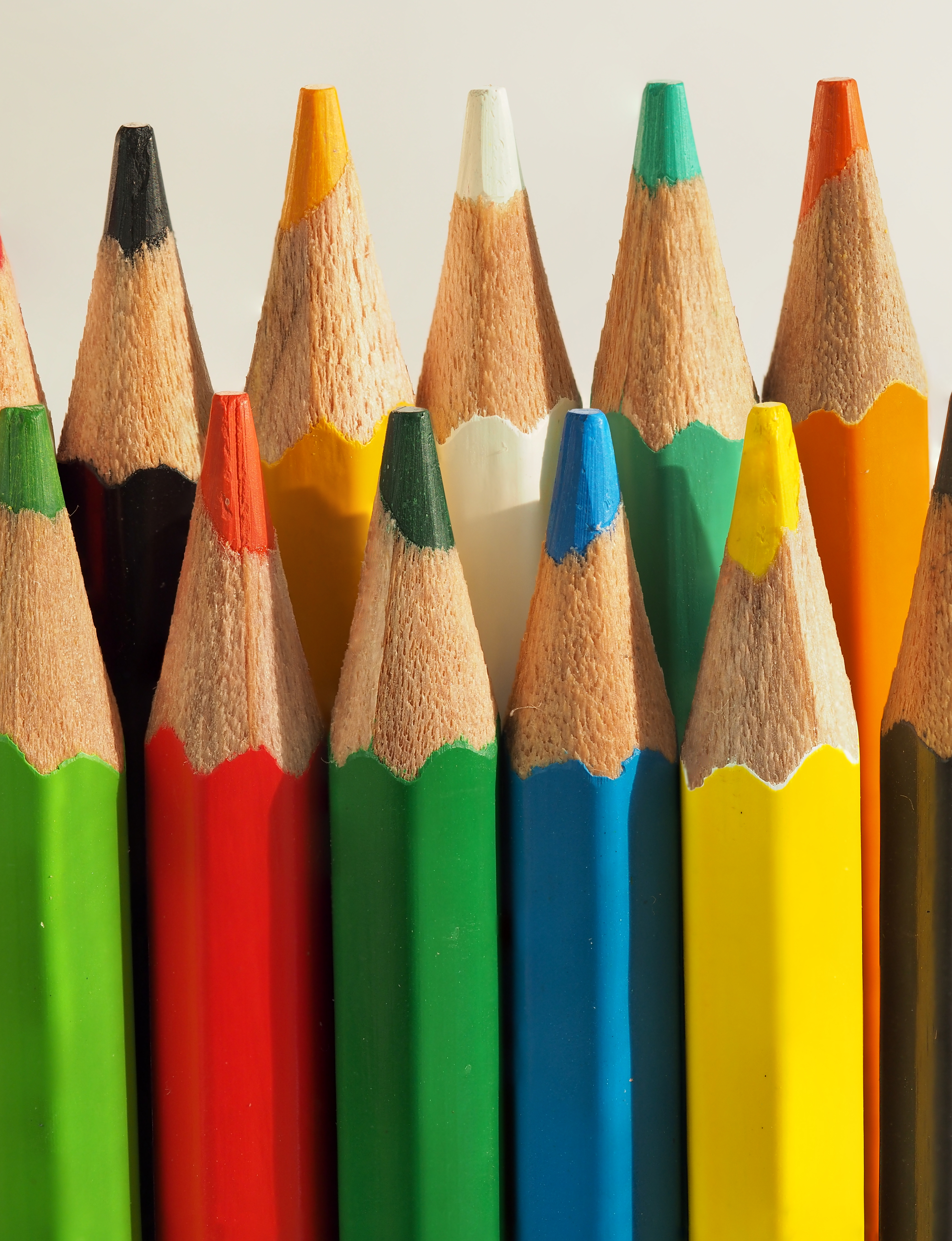 Colored pencils. Macro image stacked of 7 images. Српски (ћирилица): Дрвене бојице марке Пеликан. Макро слика састављена од седам фотографија.